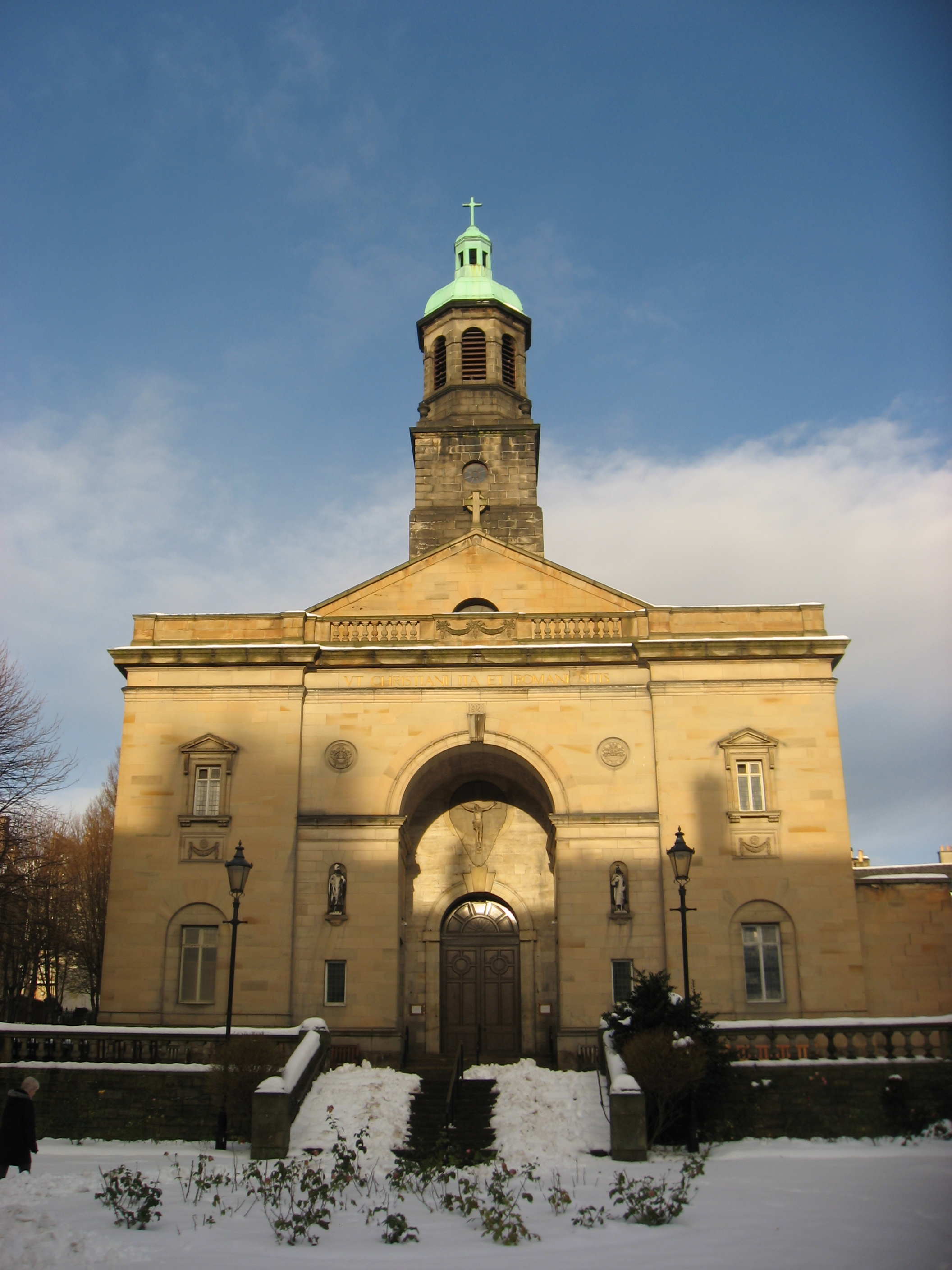 St. Patrick's Church in Edinburgh in December 2010.